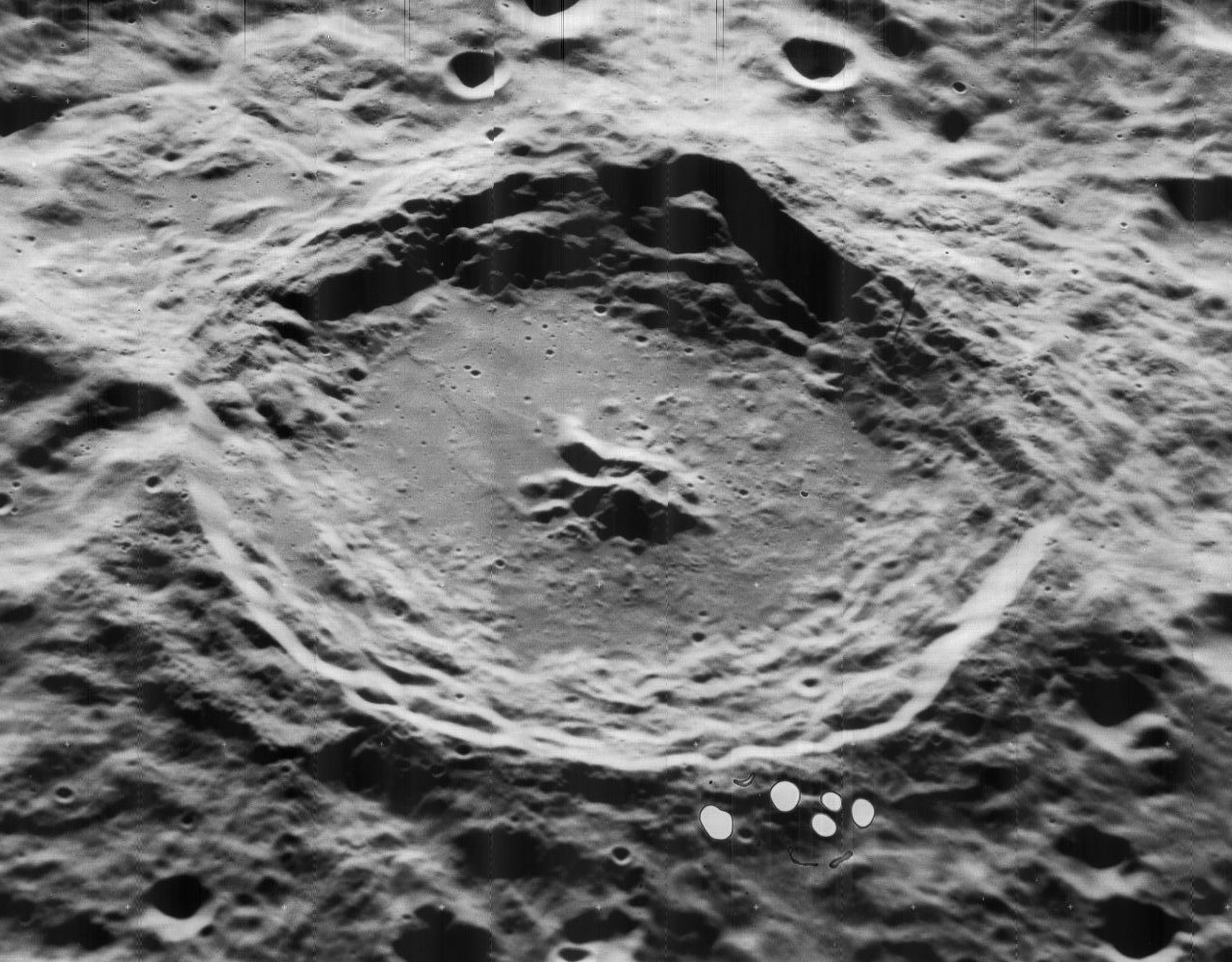 Oblique view of Kovalevskaya, on the far side of the moon, facing west. Cluster of spots in lower right are blemishes on original image.